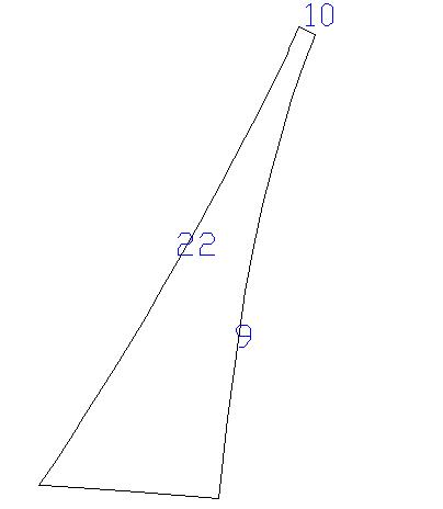 Patch_unfold